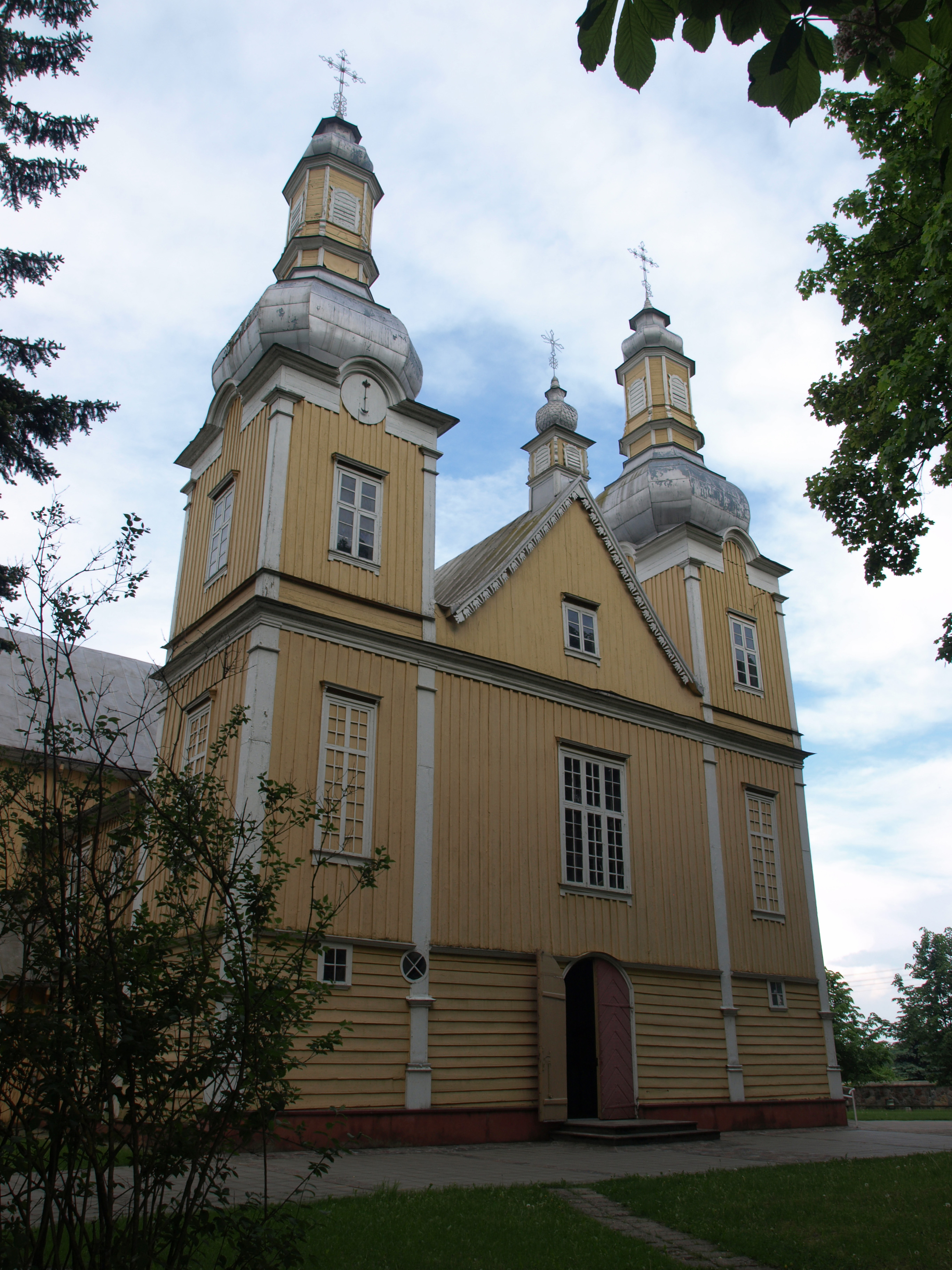 Prienai church, Prienai, Lithuania